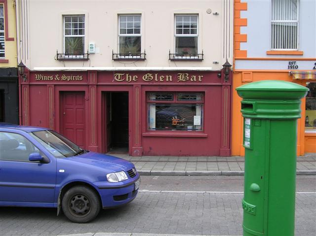 The Glen Bar, Carndonagh It is located at The Diamond